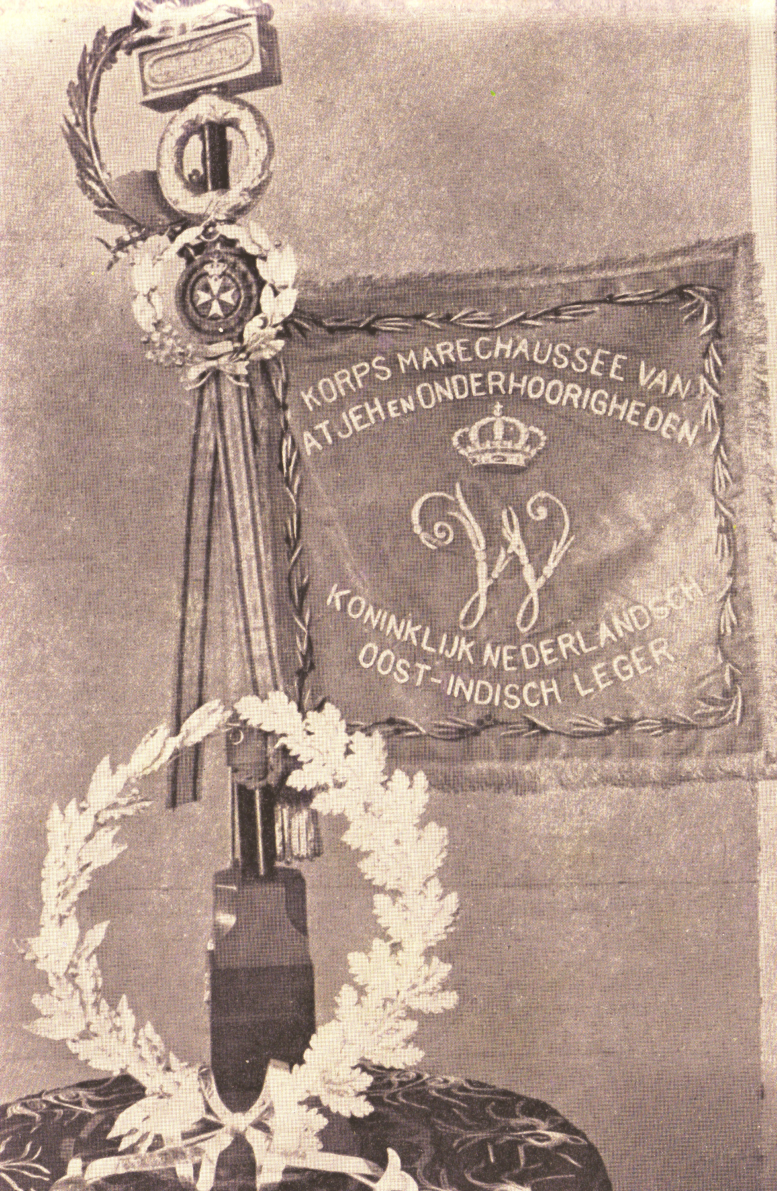 Vaandel marechaussees